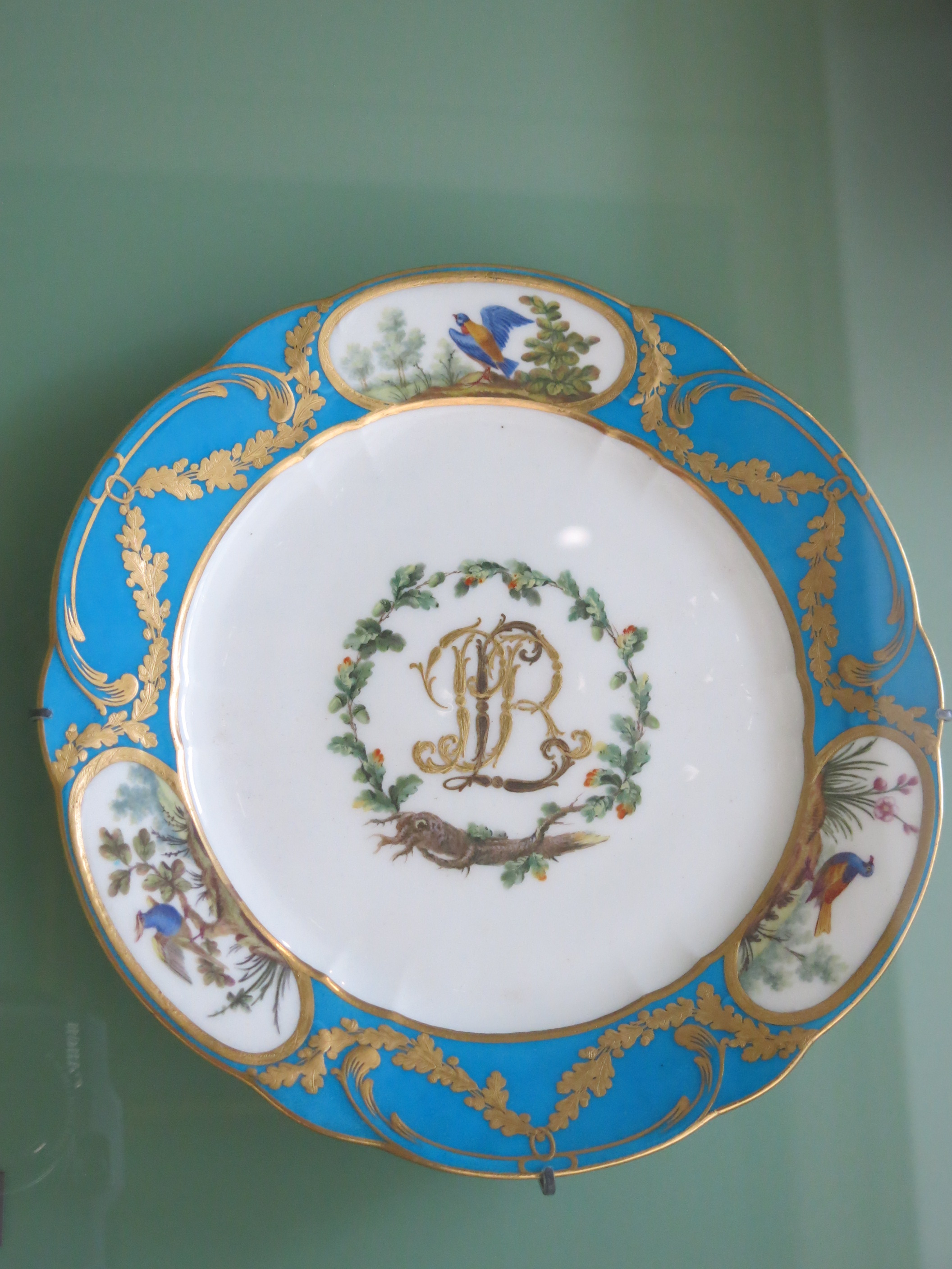 Plate with palm leaves, celestial blue background and birds. Louvre museum (Paris, France). Sèvres porcelain, 1771. Service of Cardinal Prince Louis de Rohan.